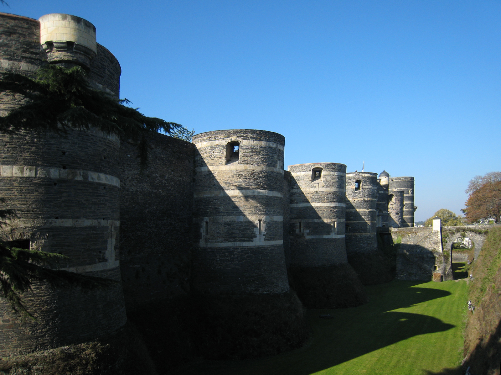 The Château d'Angers is located in the Loire Valley of France and noted for its massive curtain wall.